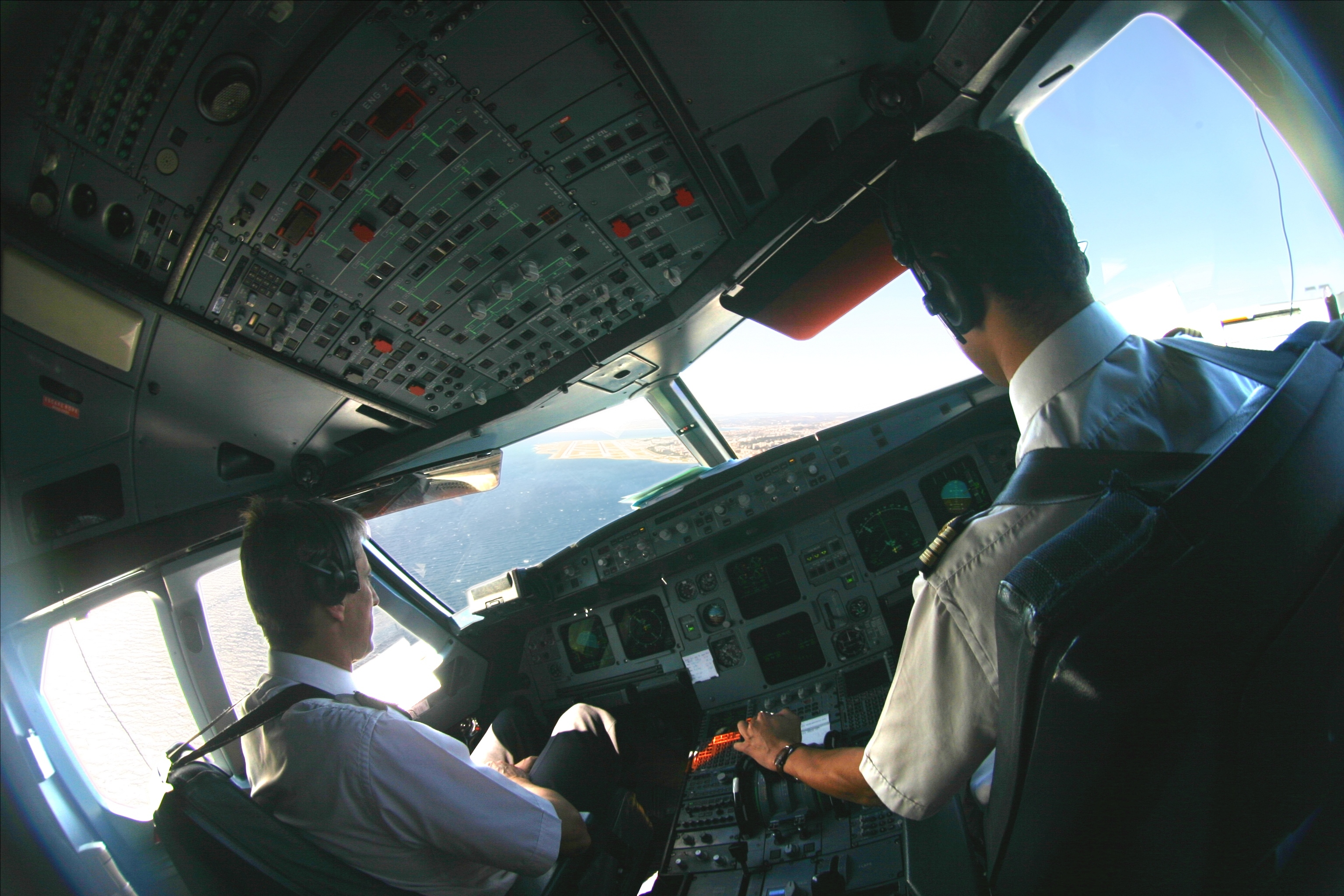 The first officer of an Air France A320 Family aircraft completes the approach to runway 22R of the Nice Côte d’Azur airport. A result of infrequent south-westerly winds, the approach to Nice airport’s parallel runways 22 requires a visual approach with a salient late left turn over Nice’s Baie des Anges.